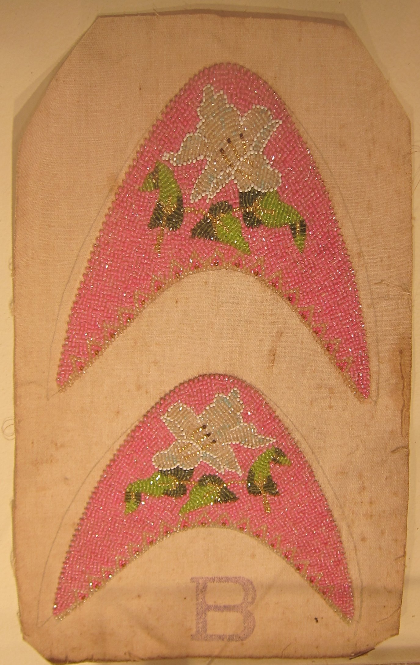 Munka kasot, Peranakan, early 20th century beaded uppers for a pair of slippers, Intan museum